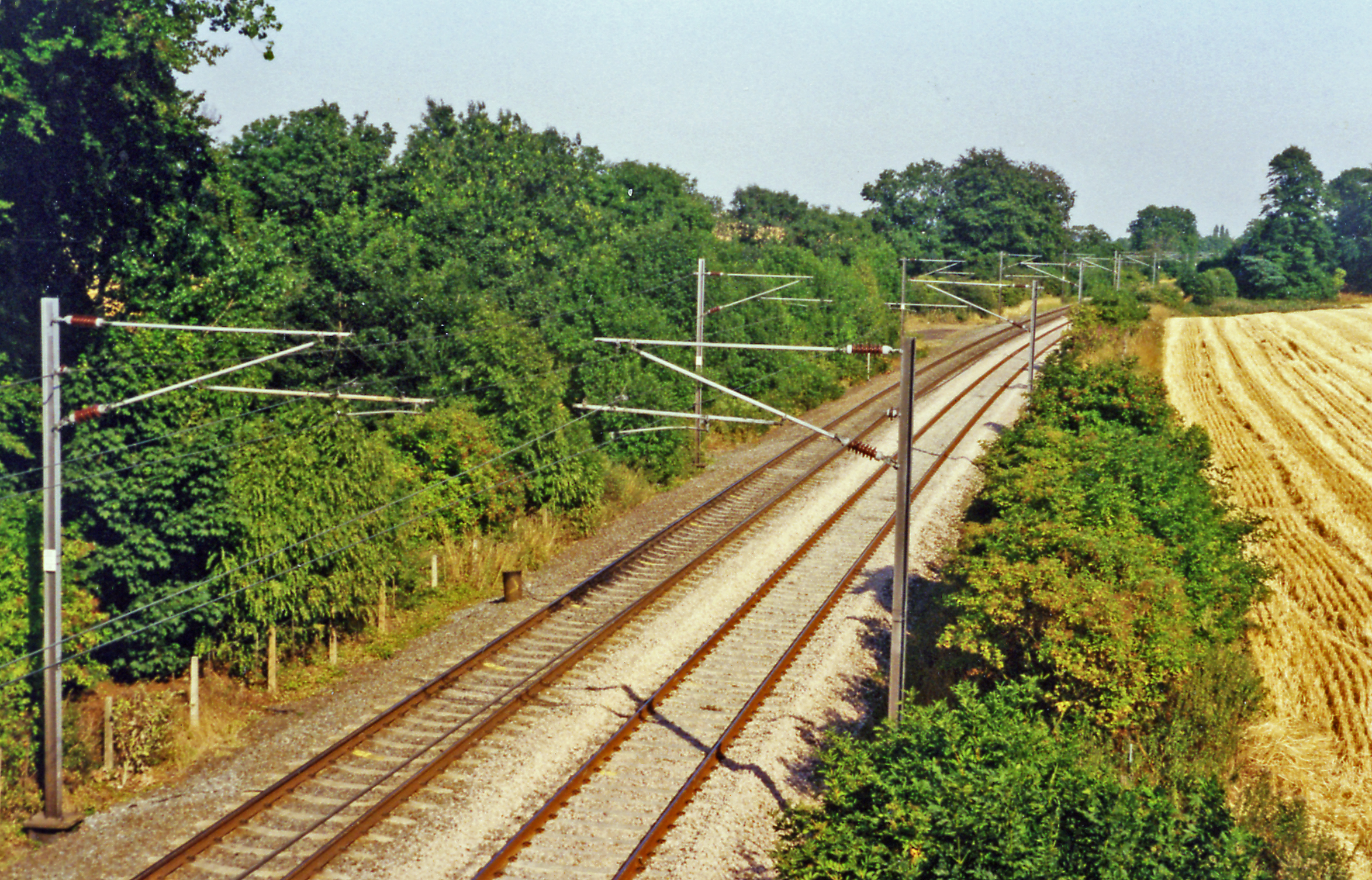 Site of Hampole station, 1995. View eastward, towards Doncaster: ex-GN&GC Joint (West Riding & Grimsby Line)Wakefield - Doncaster, a major branch of the GNR East Coast Main Line, electrified in 1988